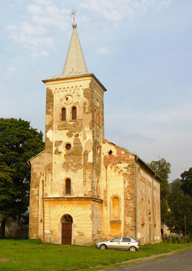 Bušovce. Evangelical church.